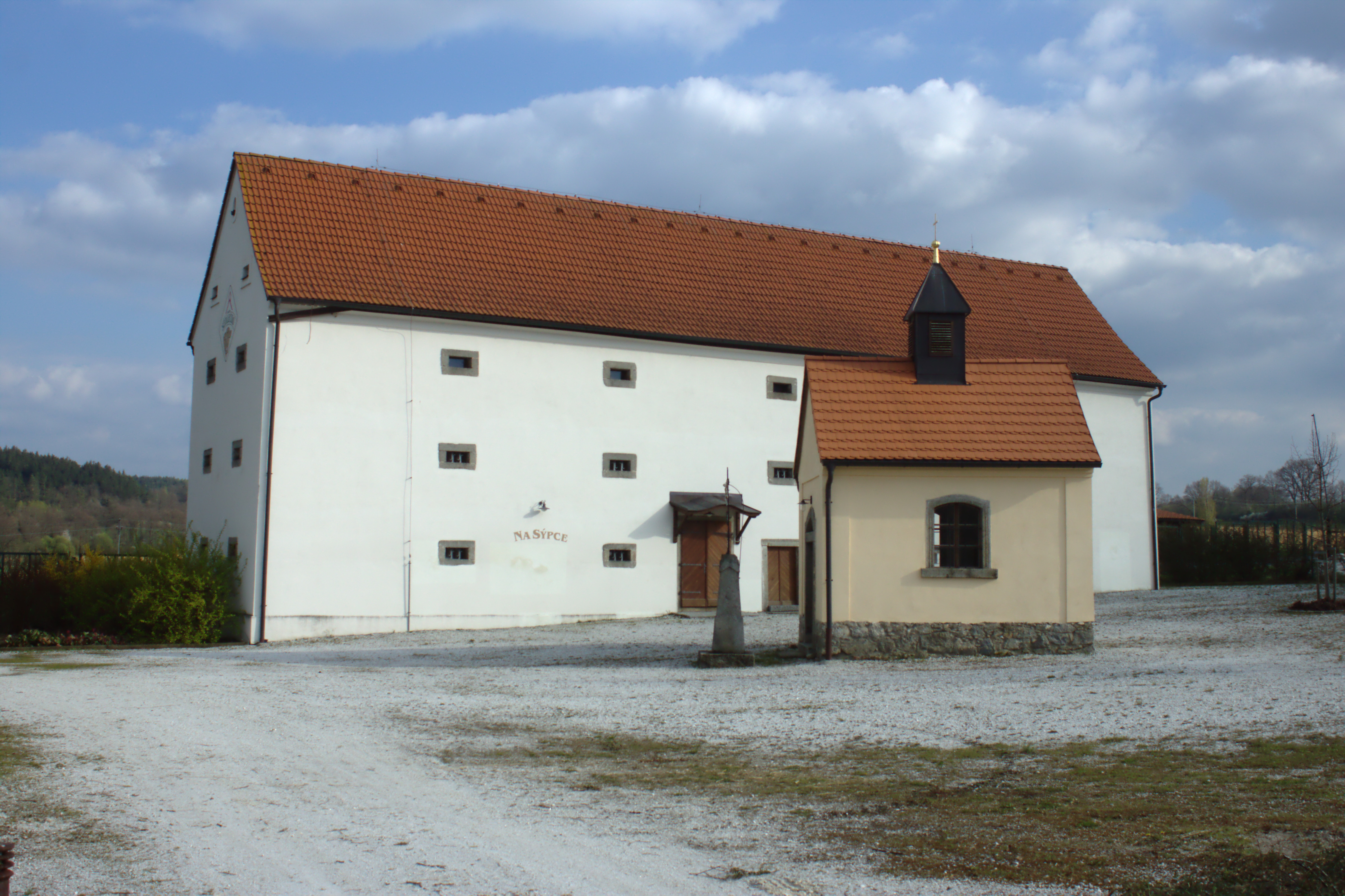 A common in the village of Sedlečko, Plzeň Region, CZ